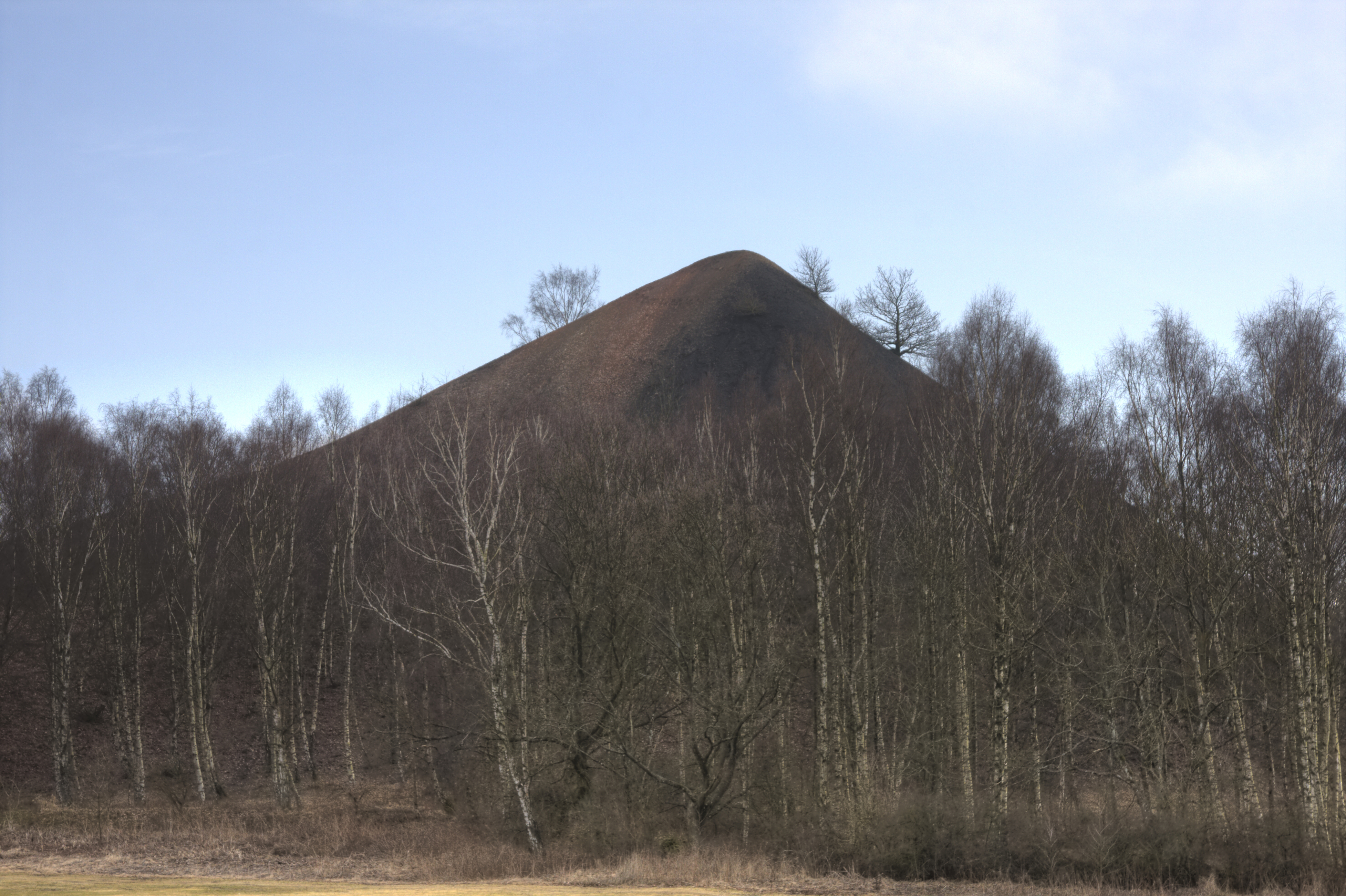 Slag heap near Billesholm in Sweden.